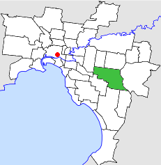 Location of the City of Waverley within Melbourne.